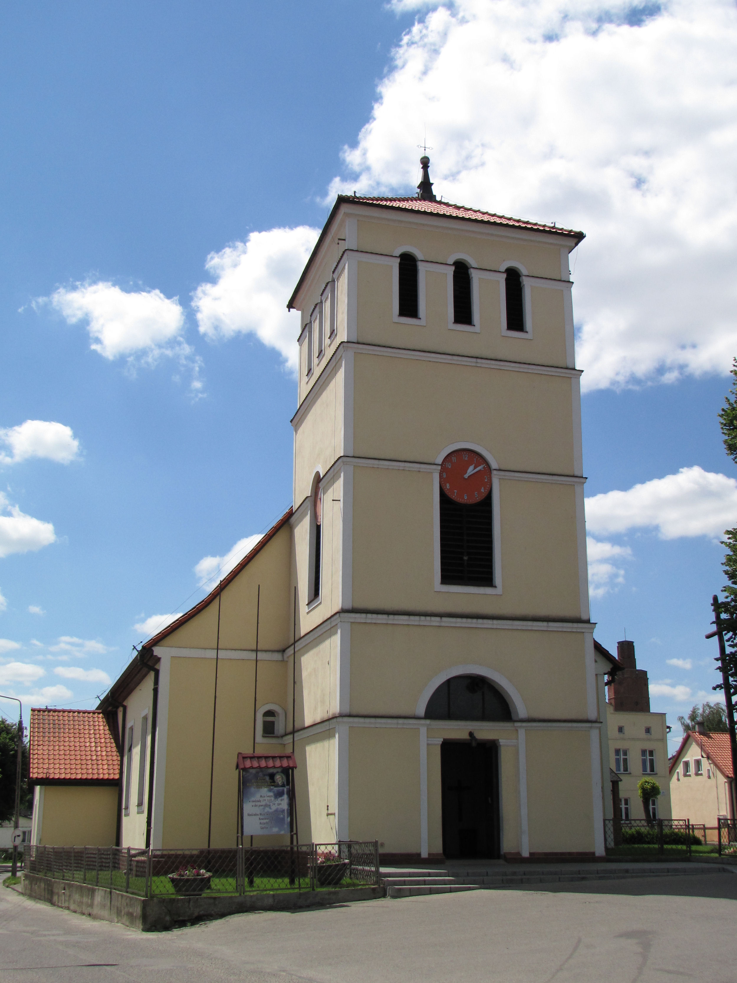 Andrew Bobola church in Biała Piska, Poland